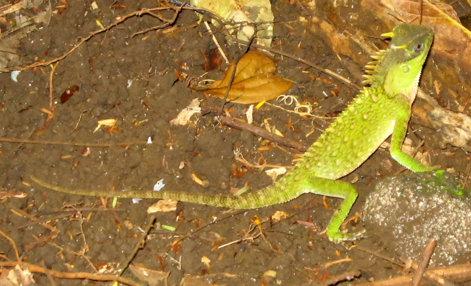 Acanthosaura capra, Cat Tien National Park